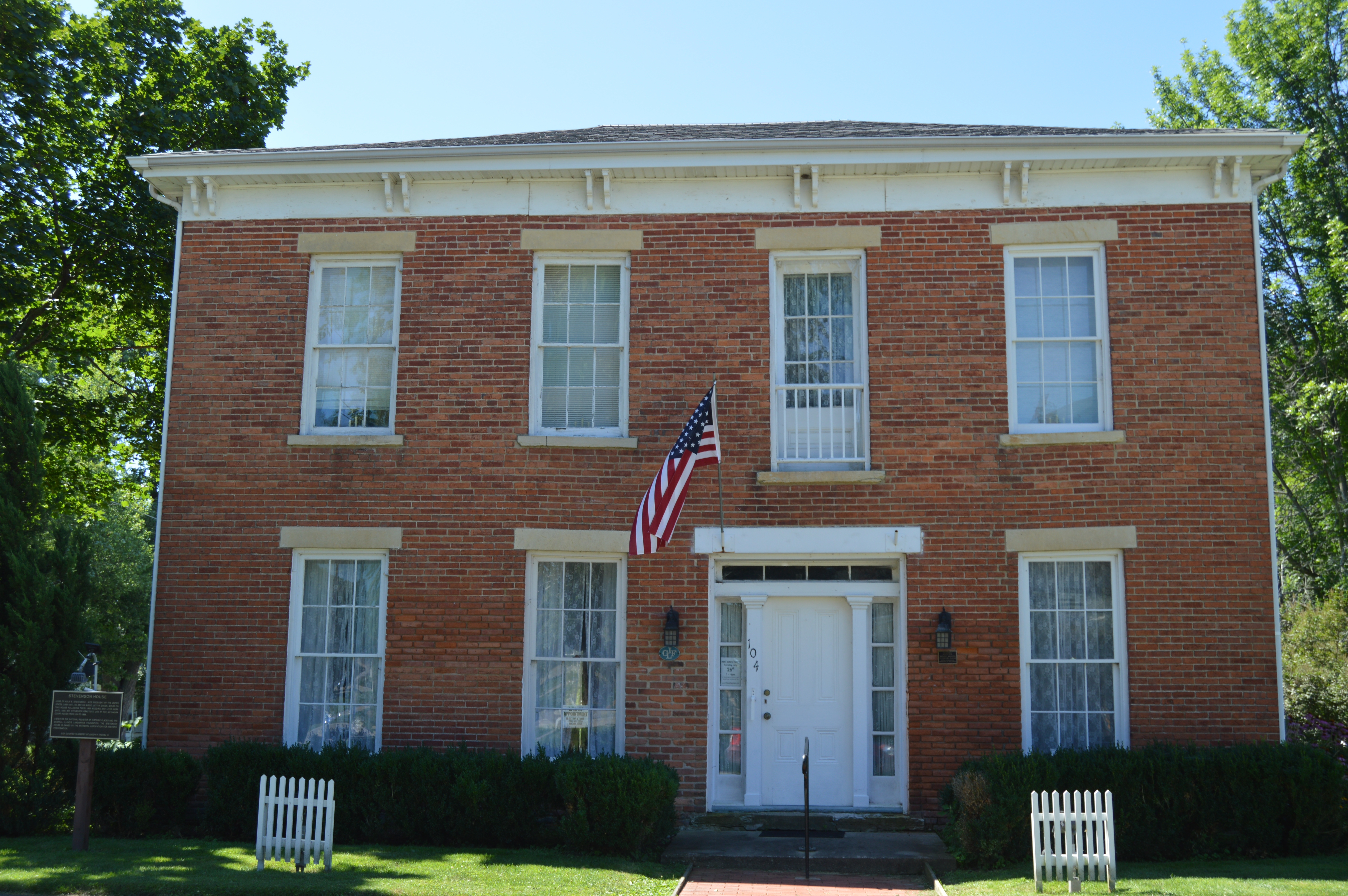 Front of the Adlai E. Stevenson I House, located at 104 W. Walnut Street in Metamora, Illinois, United States. Built in 1840 and home to Adlai Stevenson I in the 1860s, it is listed on the National Register of Historic Places.